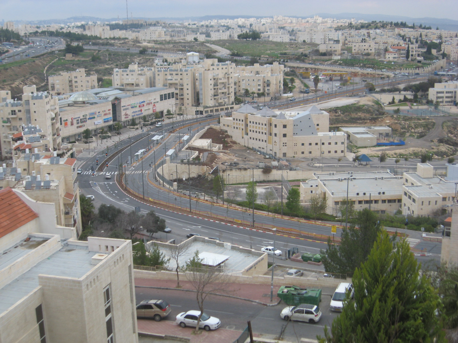 View of The Jerusalem neighborhood Pisgat Ze'ev